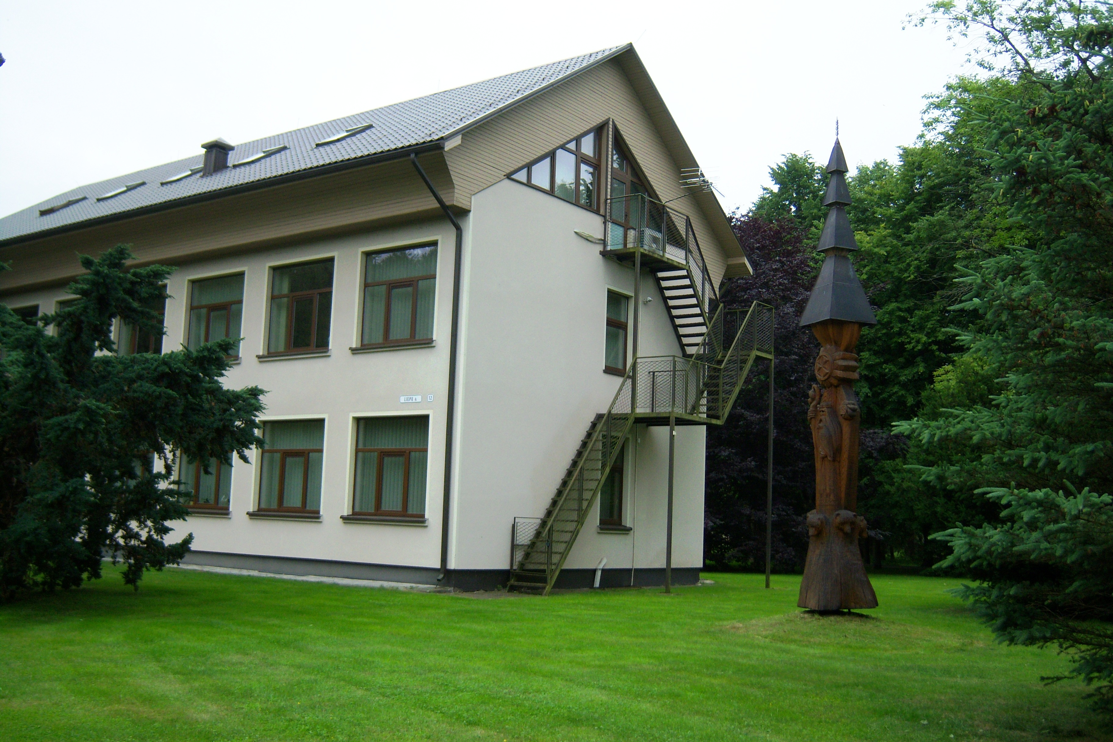 Dubravos forest enterprise, Girionys, Kaunas district, Lithuania